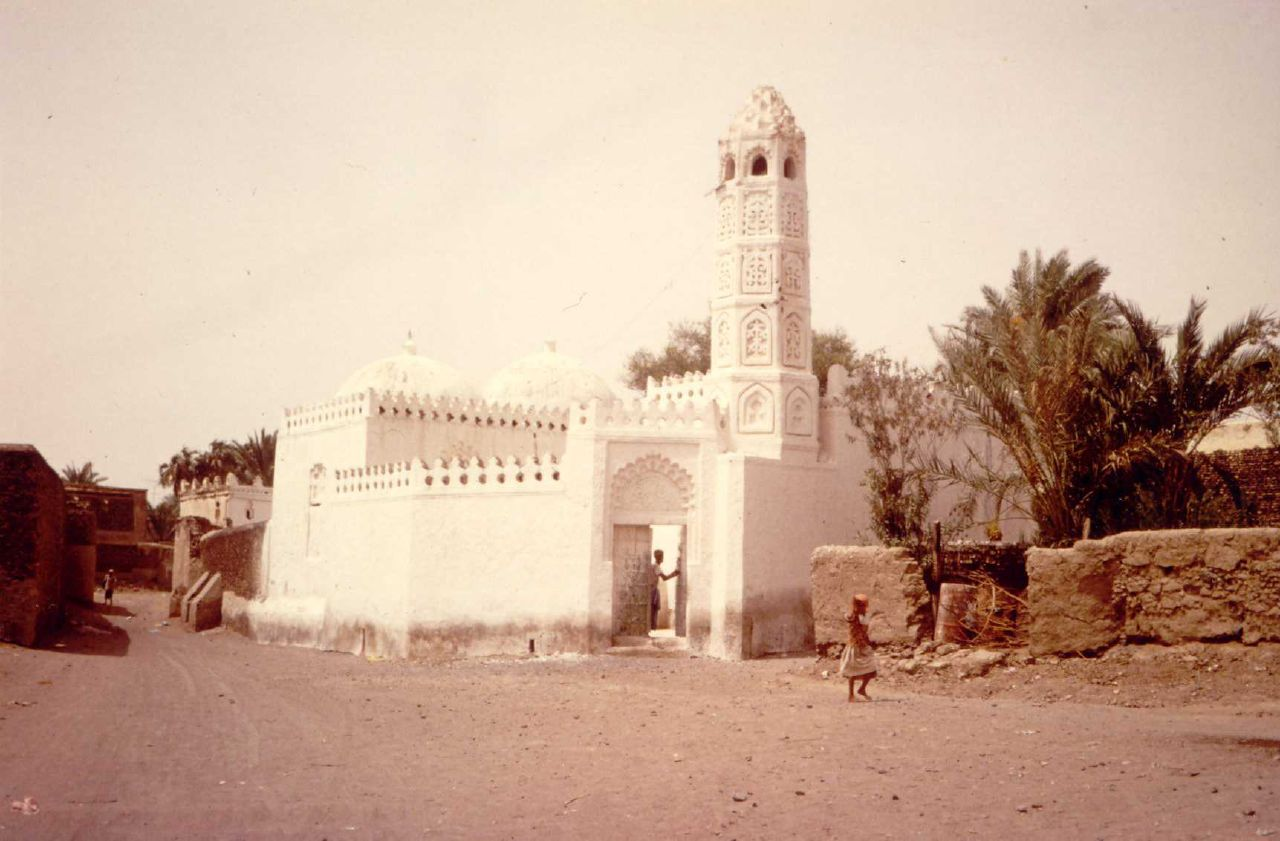 Really a forgotten place - 1000 years ago it was among the most sophisticated centers of learning in Arabia.Past glory 1 (Yemen)